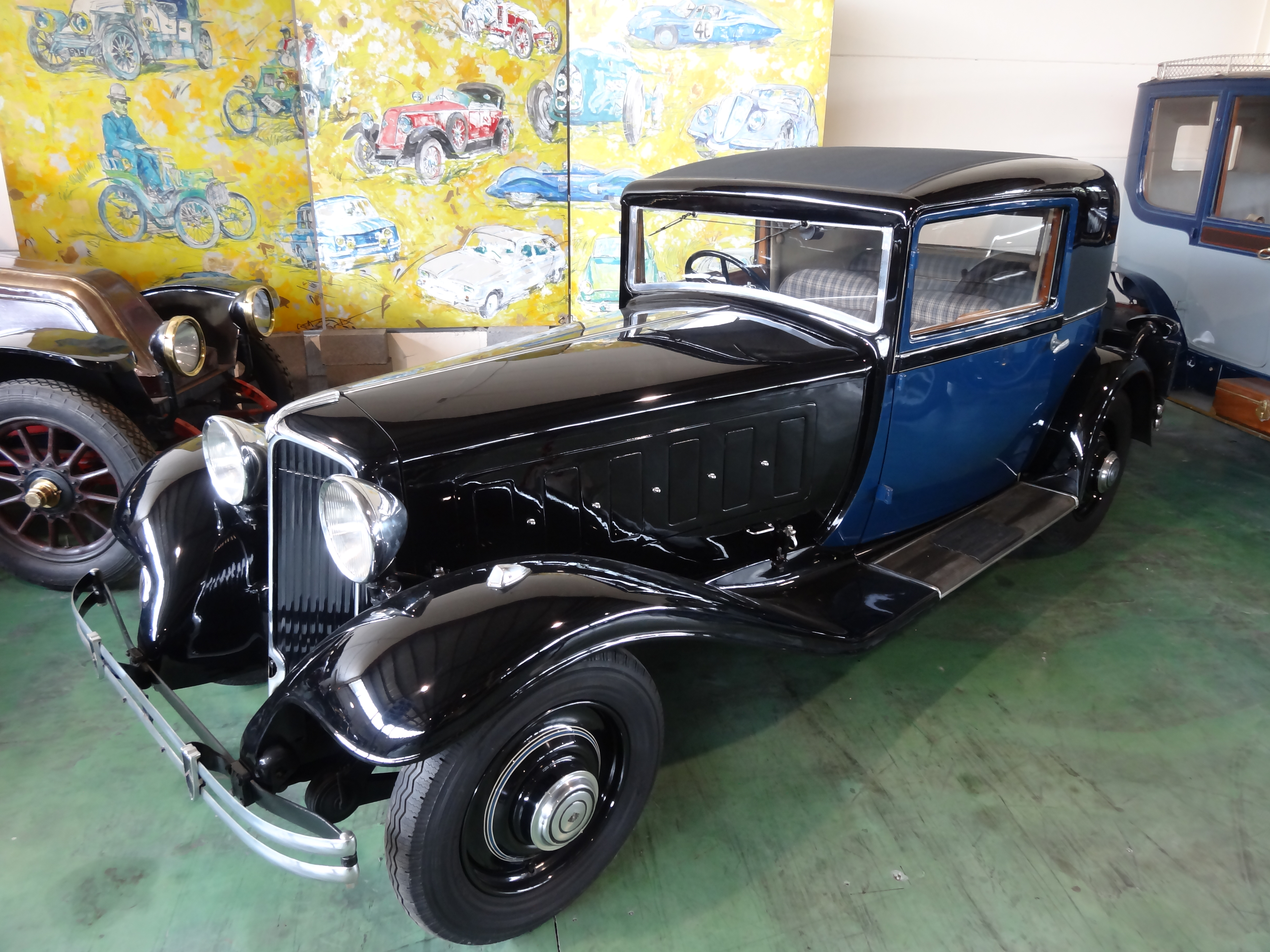 Renault Nervastella Coupé 1932